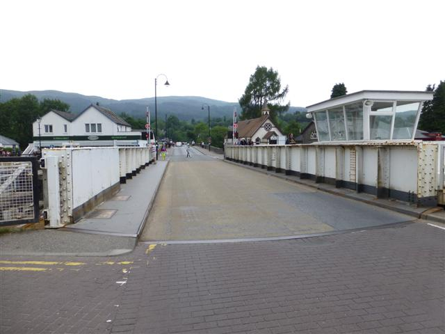 Rotating bridge, Fort Augustus